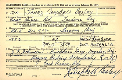 A photo of James Campbell Besley's WWII US draft card, showing his birthplace as Mt. Gambier, Australia